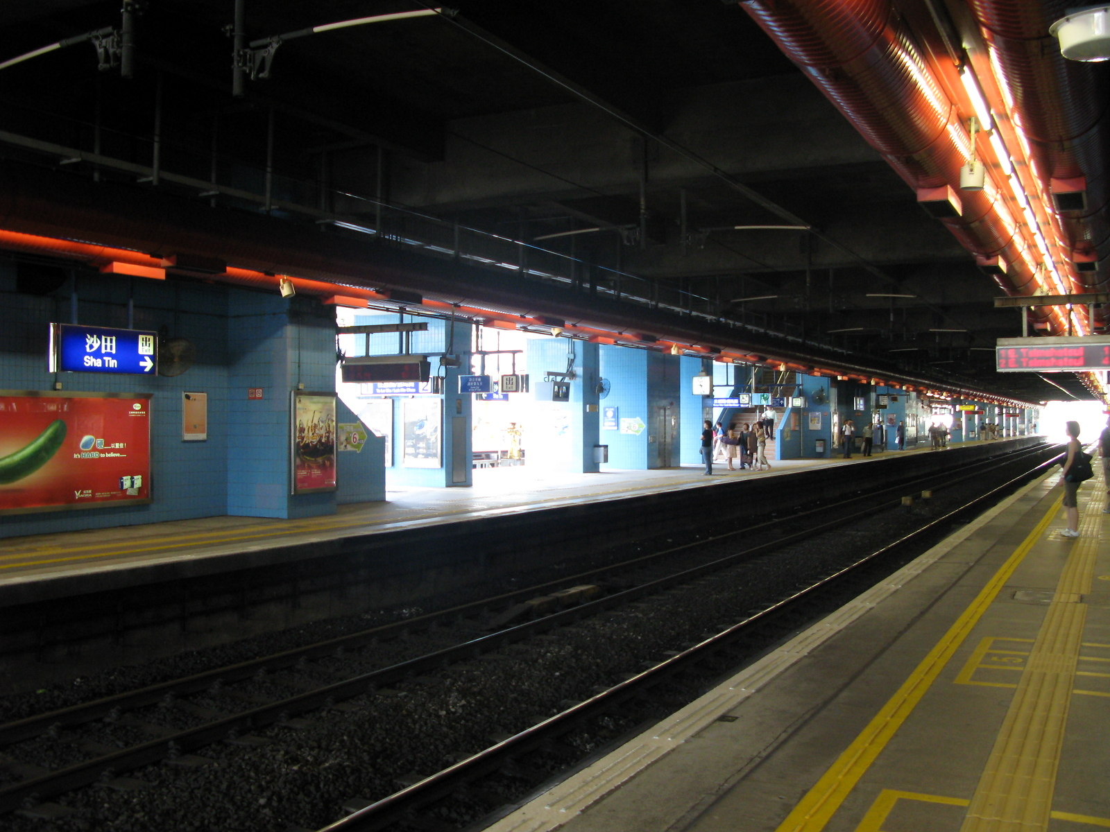 KCR East Rail Shatin Station Platform